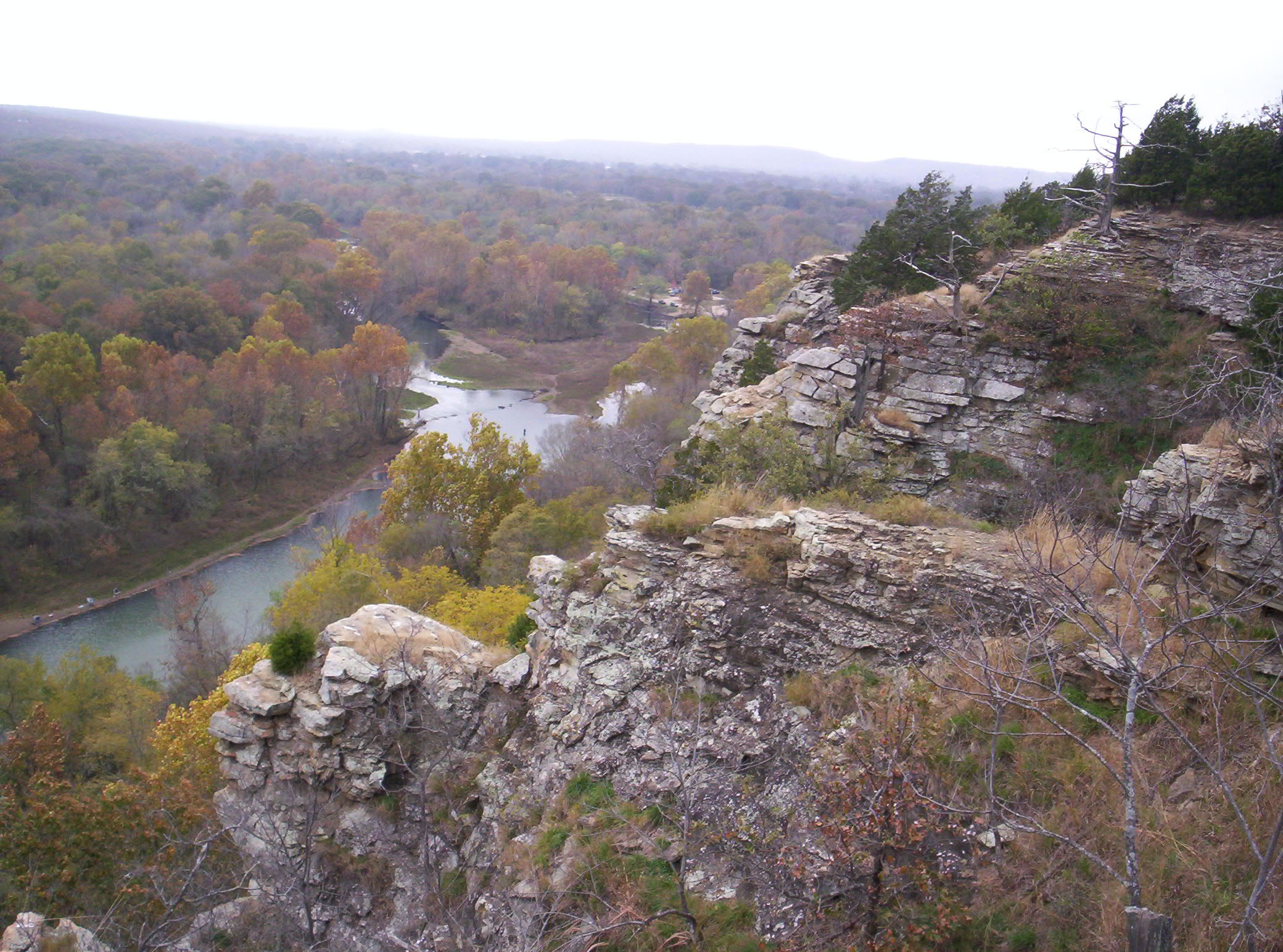 A photograph of the Illinois River at the upper end of Tenkiller Ferry Lake in Oklahoma